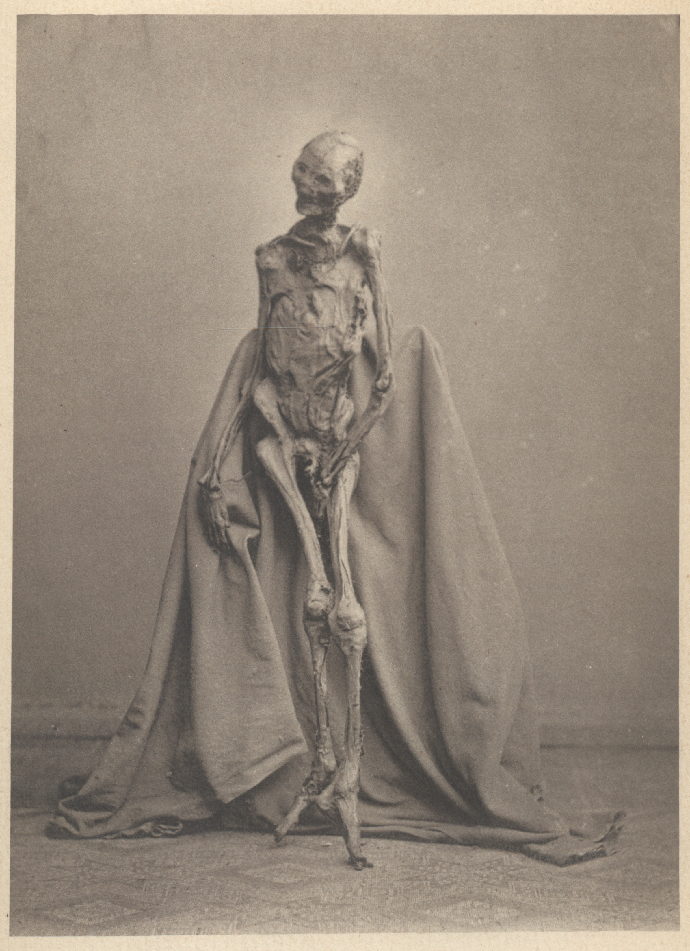 Photograph of bog body Rendswühren Man of 1873. The bog body had been found in 1871 in the Heidmoor near Rendswühren and is now on display at Archäologisches Landesmuseum Gottorf Castle, Schleswig Germany. Dated around 1st or 2nd century AD.